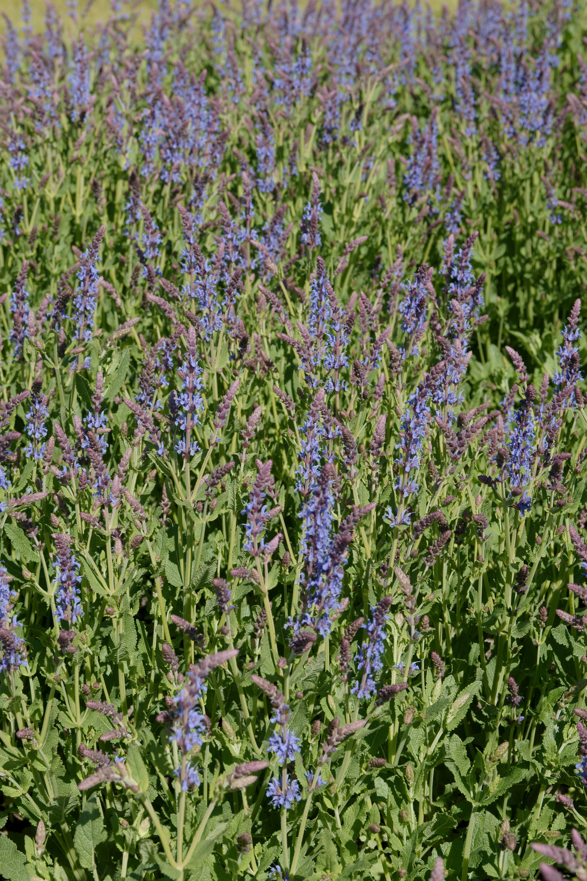 Perennial Woodland Sage (Salvia x sylvestris).